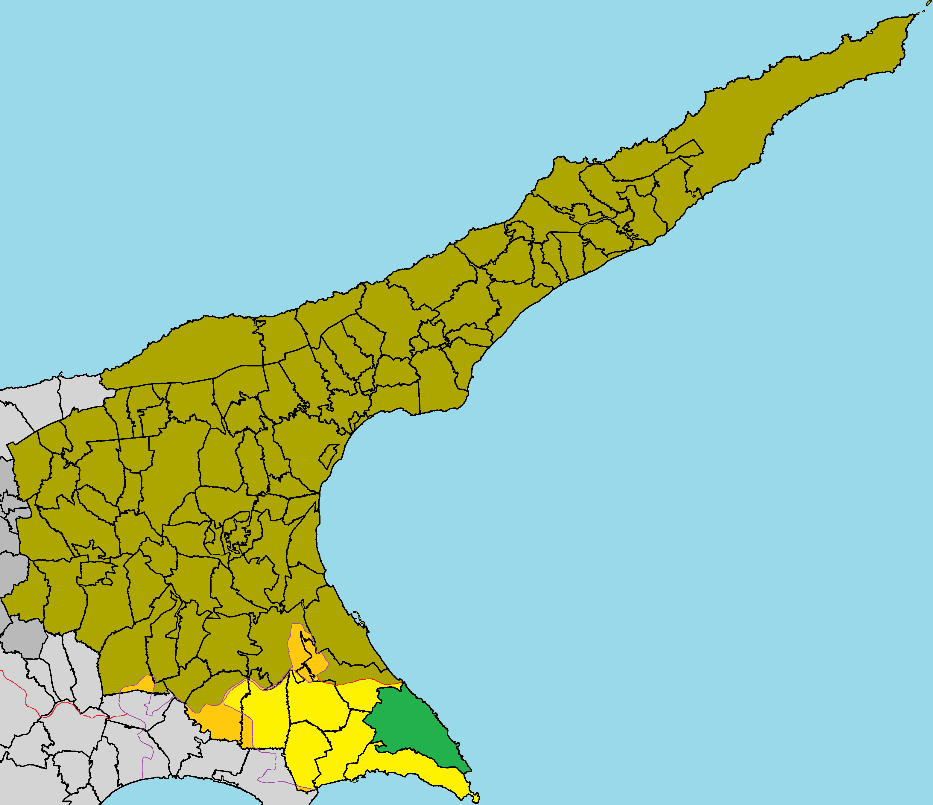 Paralimni in Famagusta District (de jure).